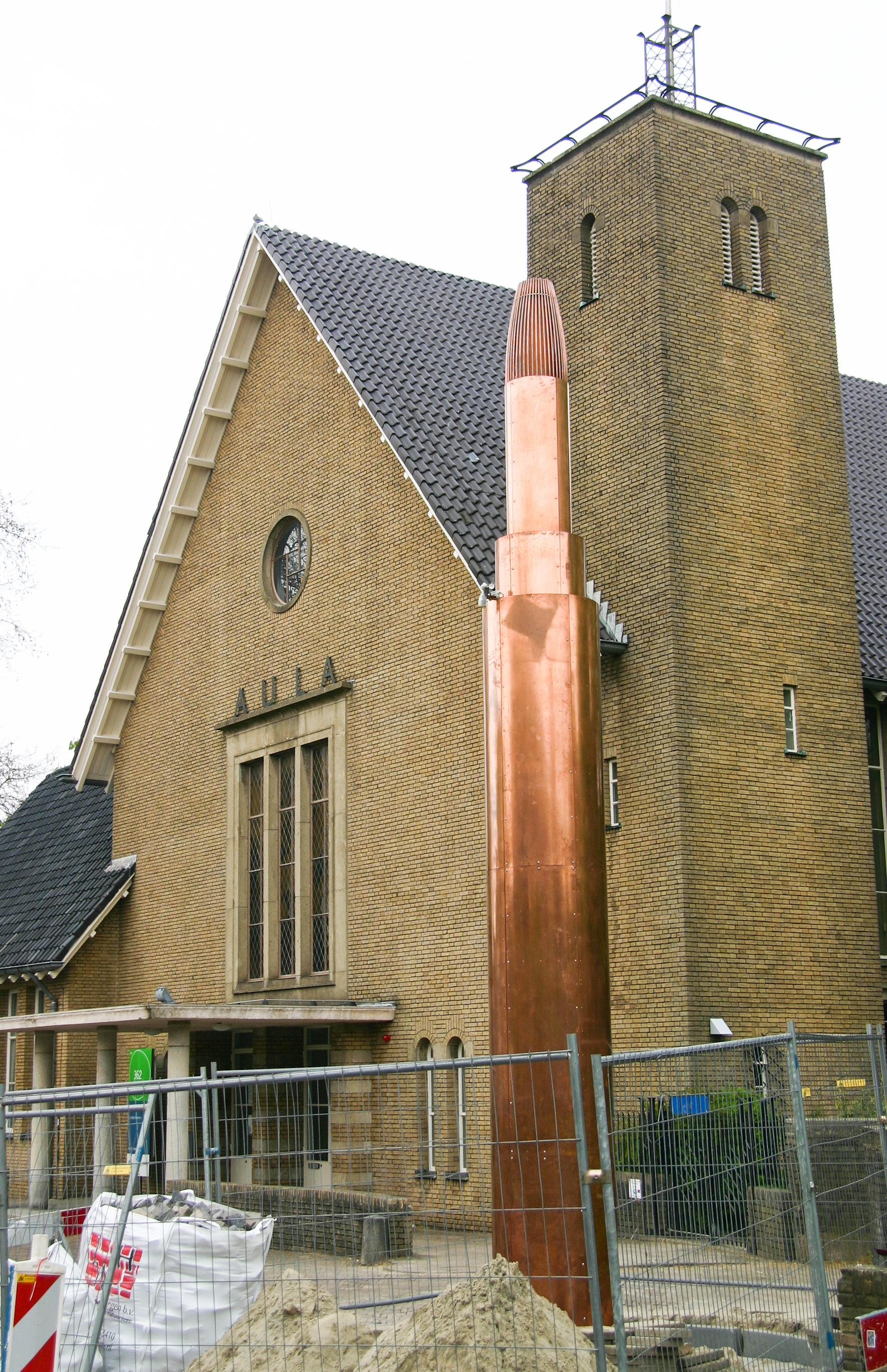 "Vrijheidsvuur" (Fire of Liberty) by Hanshan Roebers, in Generaal Foulkesweg 1 Wageningen NL